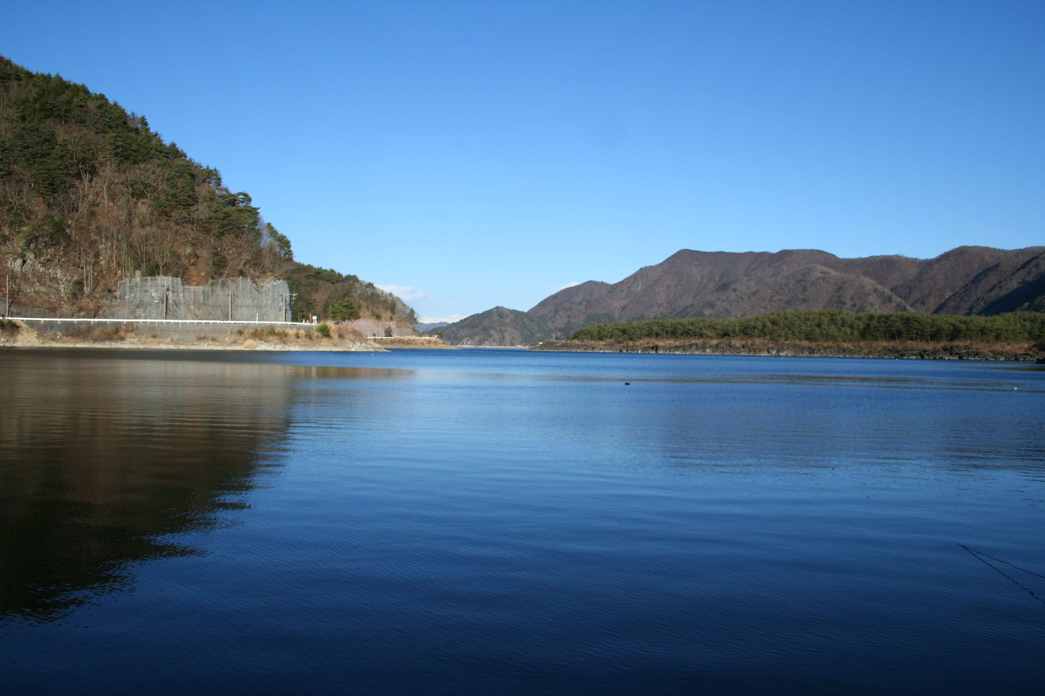 Lake Sai (Saiko) from West End. It is a small and very less developed lake in fuji five lakes area.